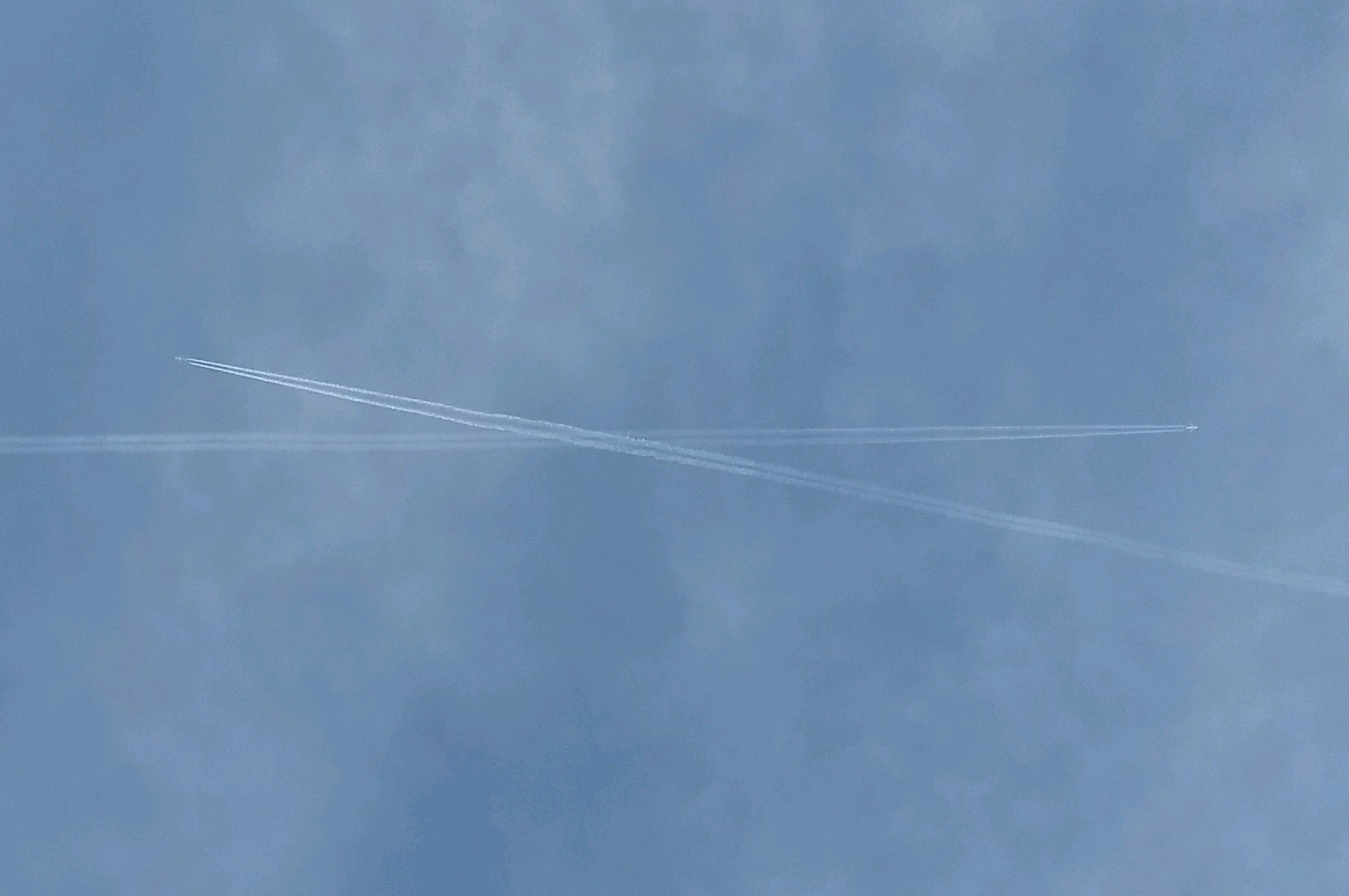 Contrail formed due to two jet are crossing over. Captured from NIT AGARTALA, Tripura, India. Dated 8 Feb 2018.